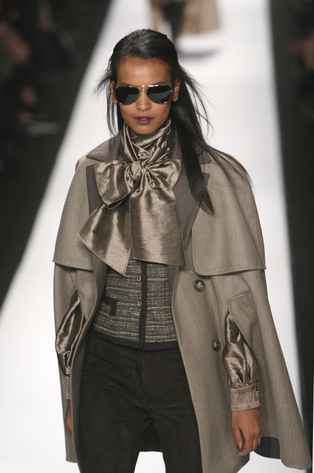 Liya Kebede February 2008 at Carolina Herrera